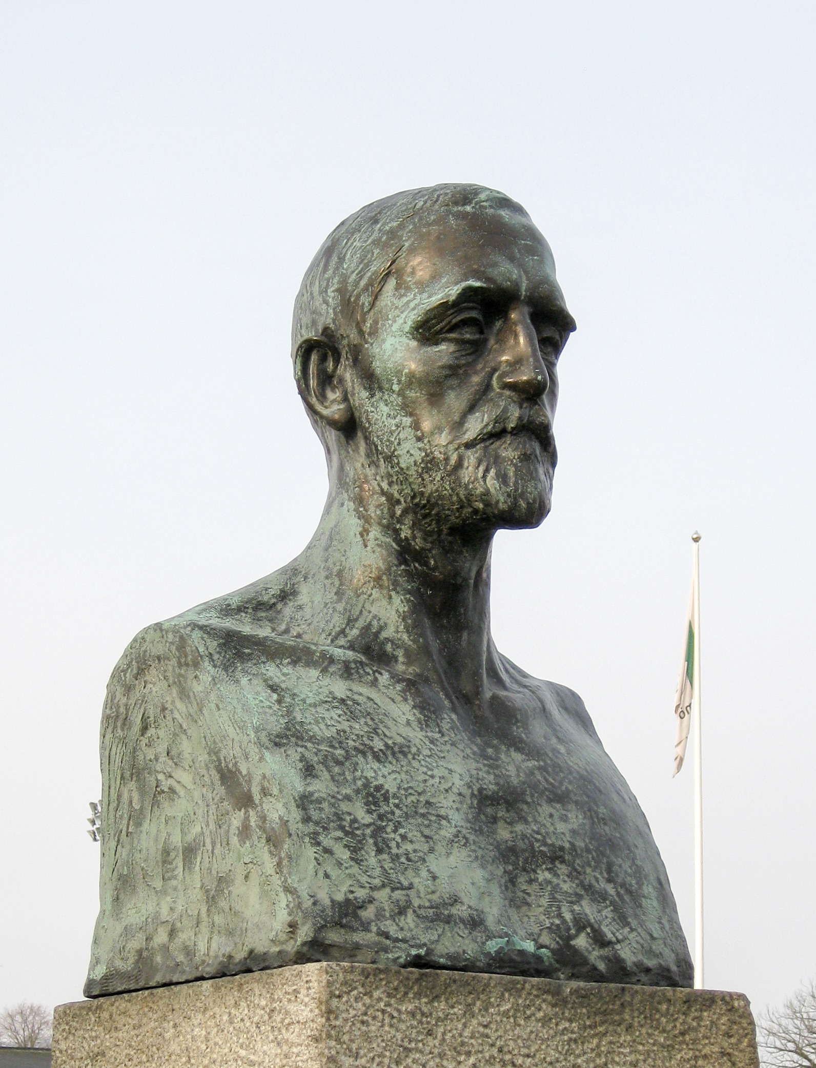 Bust of Carl Frick, founder of Malmö IP ( Malmö old football court ) outside the arena.